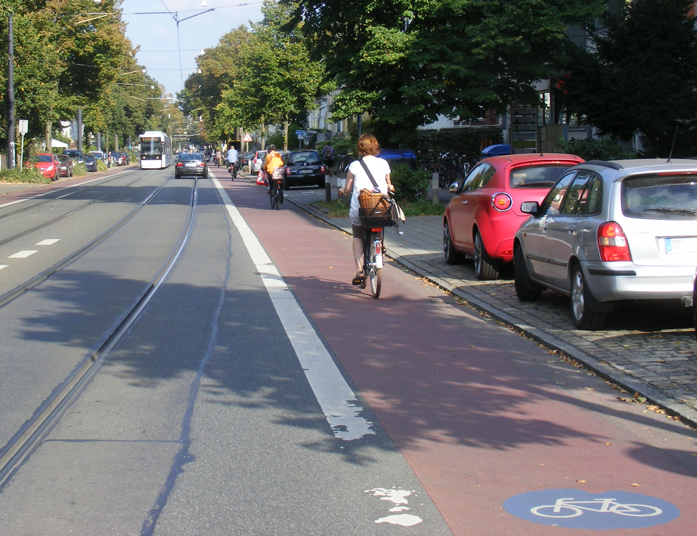 The cycle lanes in Wachmannstraße, Bremen, are a success of the German cycle club ADFC and local Green politicians